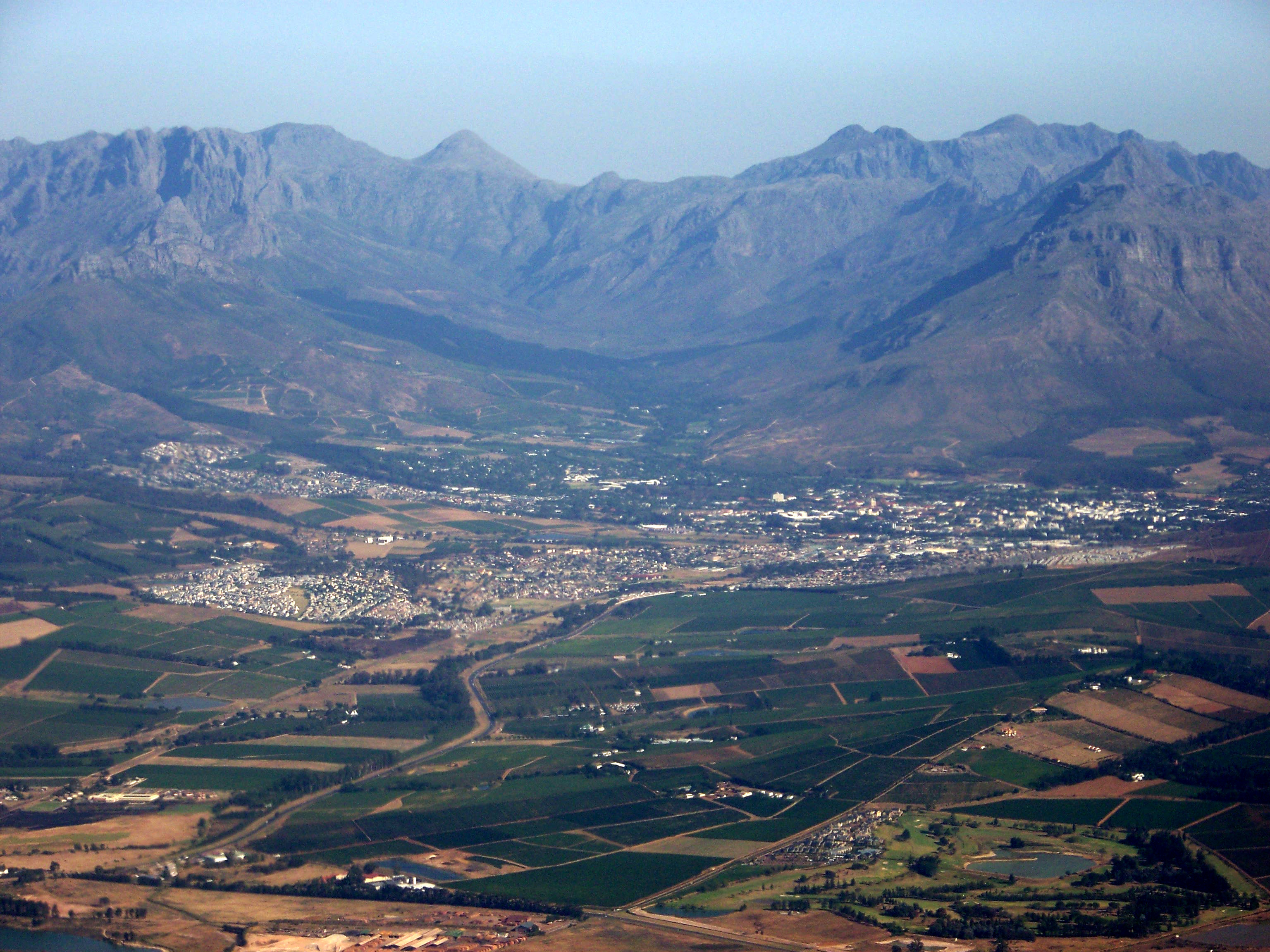 Stellenbosch aerial, with the Groot Drakenstein and Stellenbosch Mountain beyond